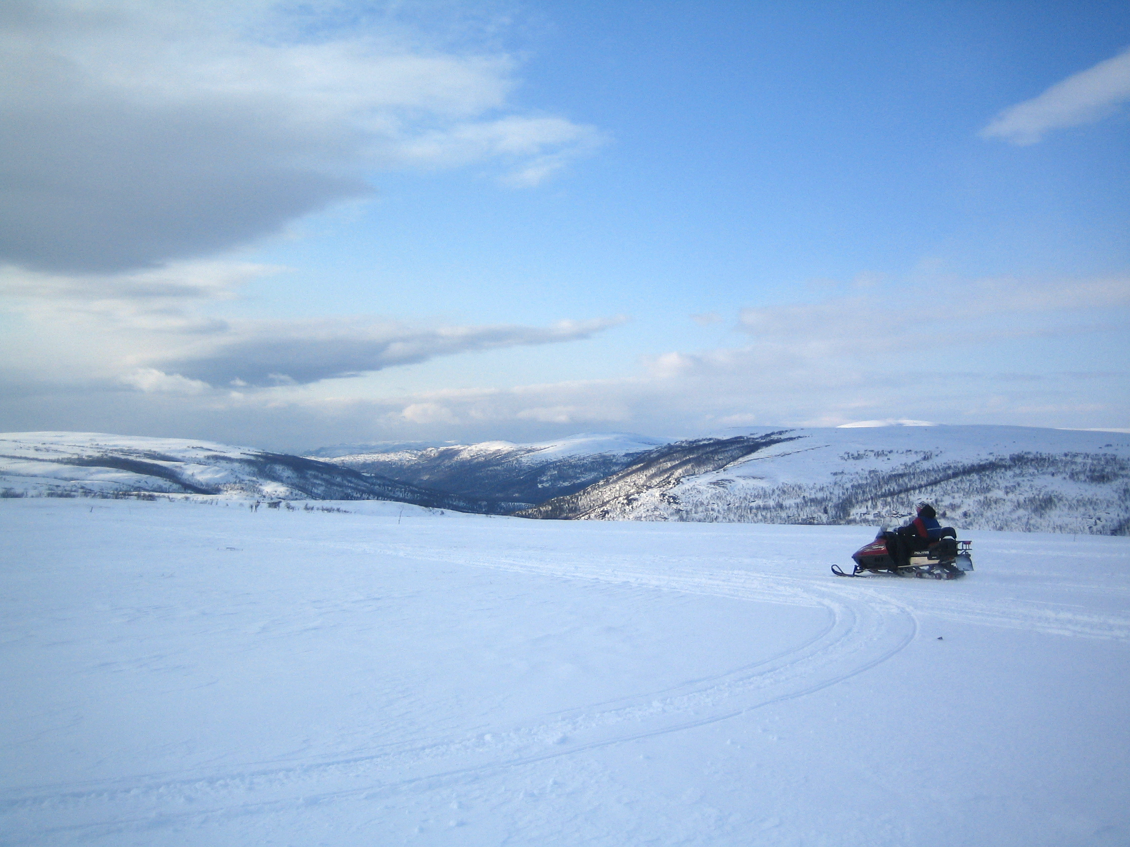 Snowmobile, Alta, Finnmark, Norway. Mountain ski-scootering as a leisure activity is an increasing problem in Nortern Norway.